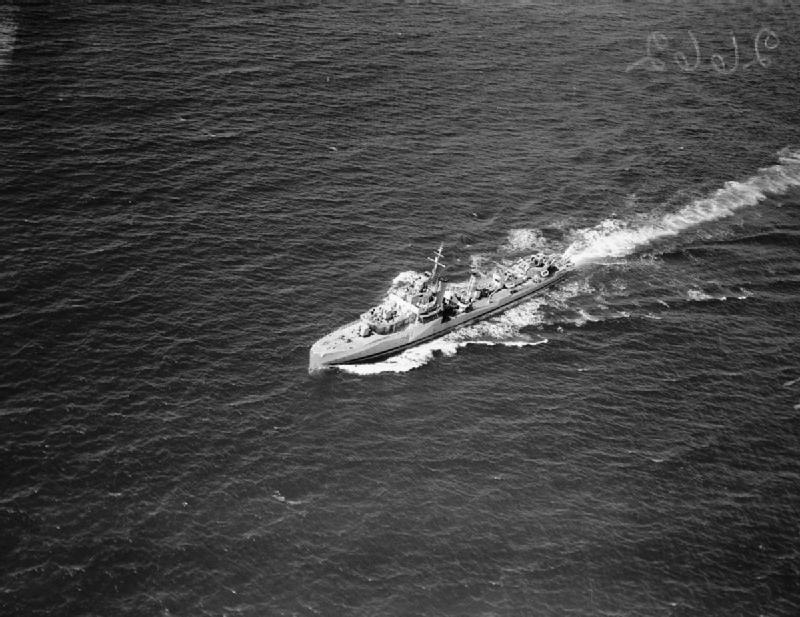 Hmcs Gatineau Underway.